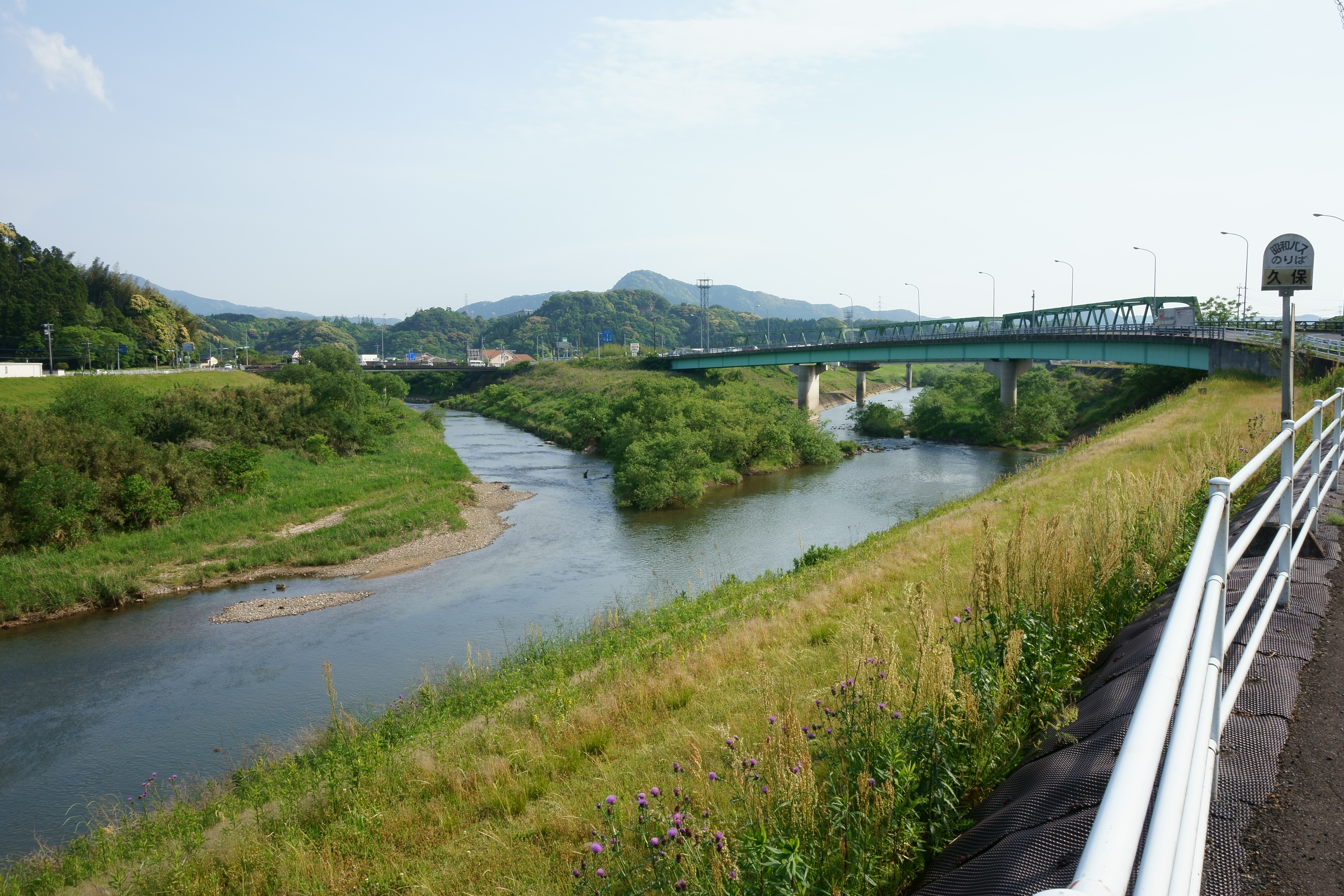 The confluence of Matsuura River and Kyūragi River, from side of Route 203 Kubo bridge, in Kubo, Ouchi, Karatsu city, Saga prefecture.